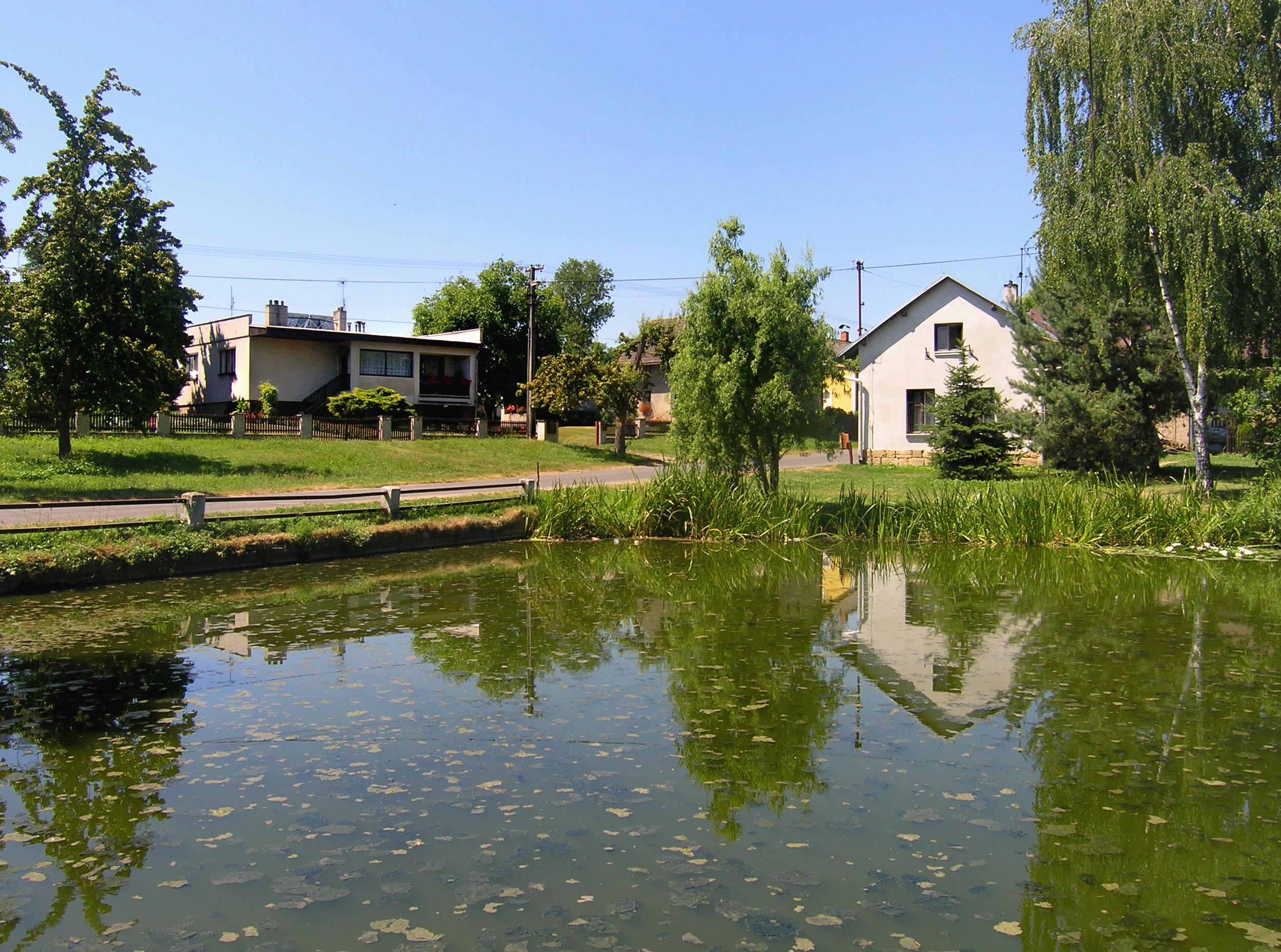 Common pond in Lhotice, part of Mnichovo Hradiště, Czech Republic